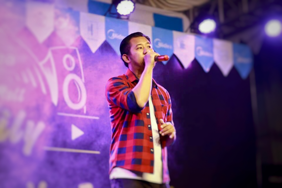 Yone Lay is Burmese singer and actor.